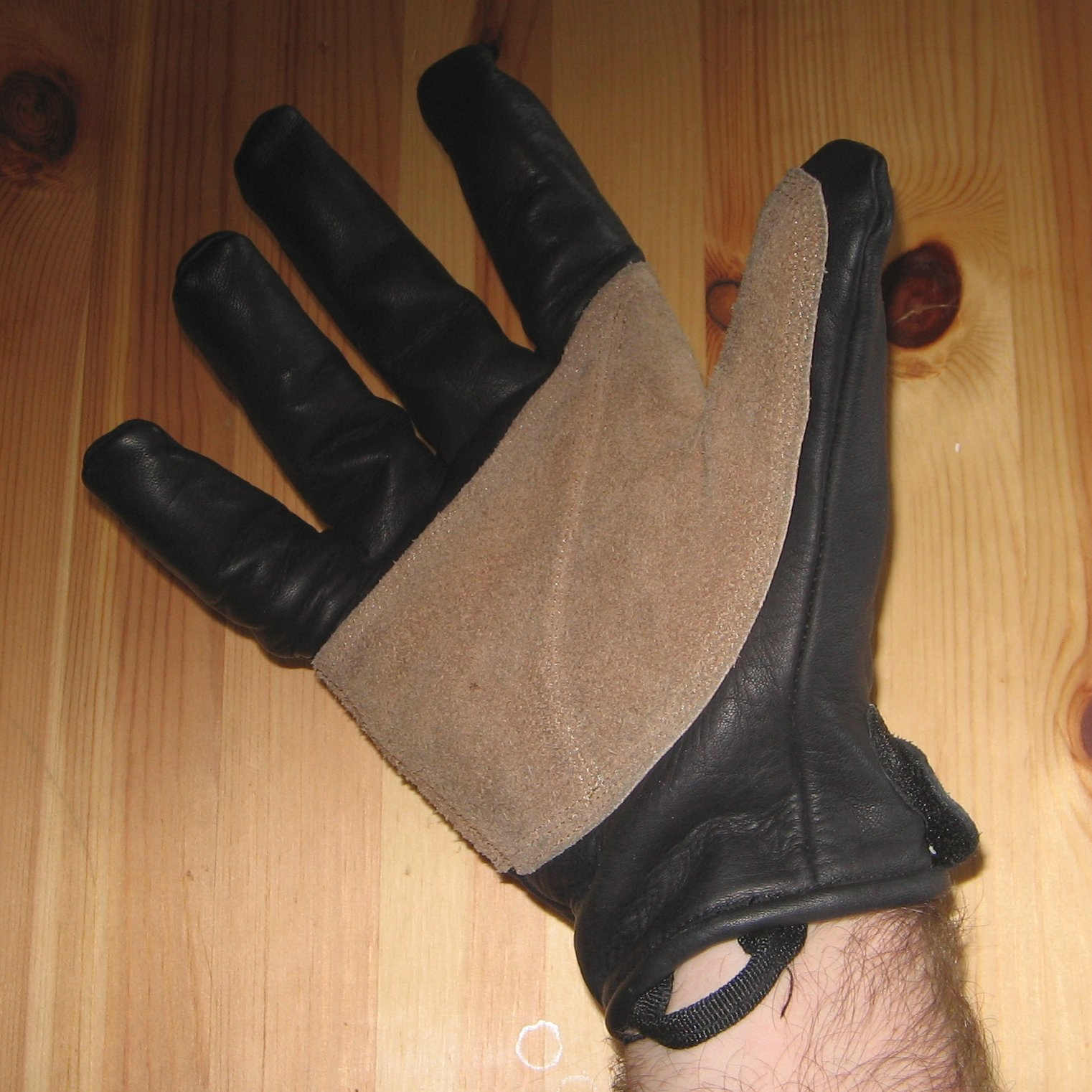 A belay glove. Glove made by Metolious. Uploaded by Stewart Adcock,29 May 2005 (UTC) Stewart Adcock's website